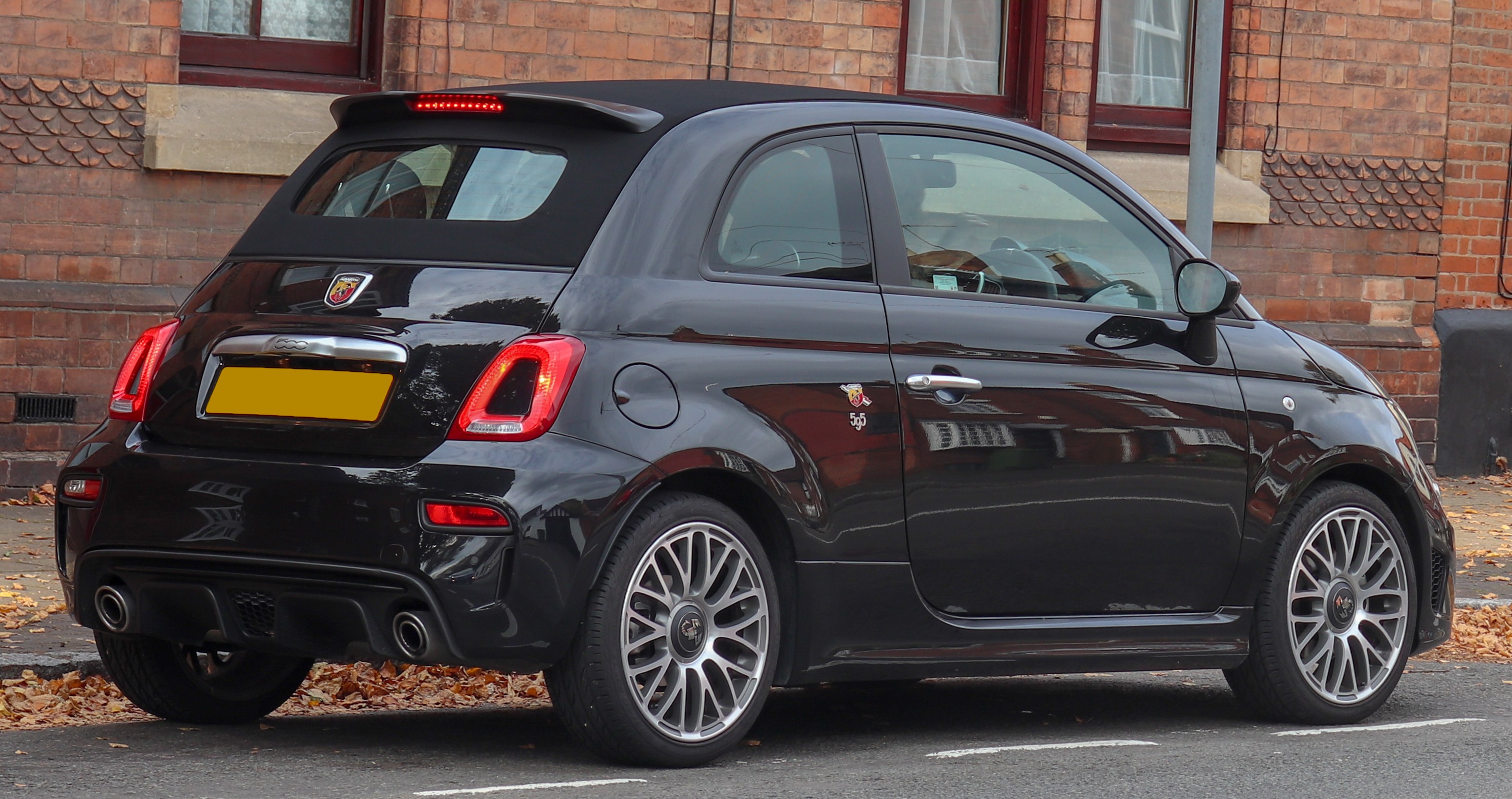 2018 Abarth 595C 1.4 Rear Taken in Warwick